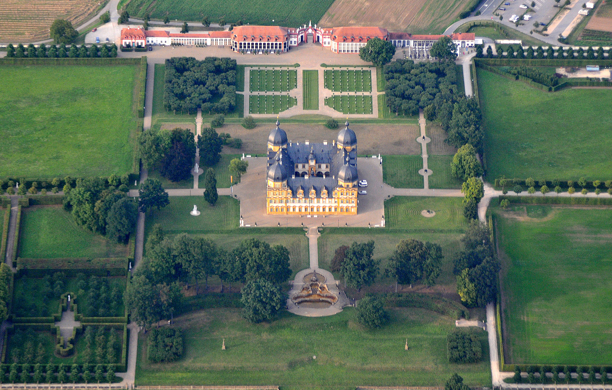 Aerial picture of Schloss Seehof, a castle near Bamberg, Bavaria, GermanyThis is a photograph of an architectural monument.